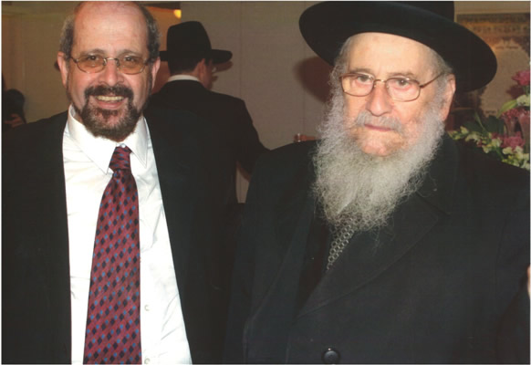 Rabbi Ahron Daum with the chief rabbi of Antwerp, Rabbi M.D. Lieberman